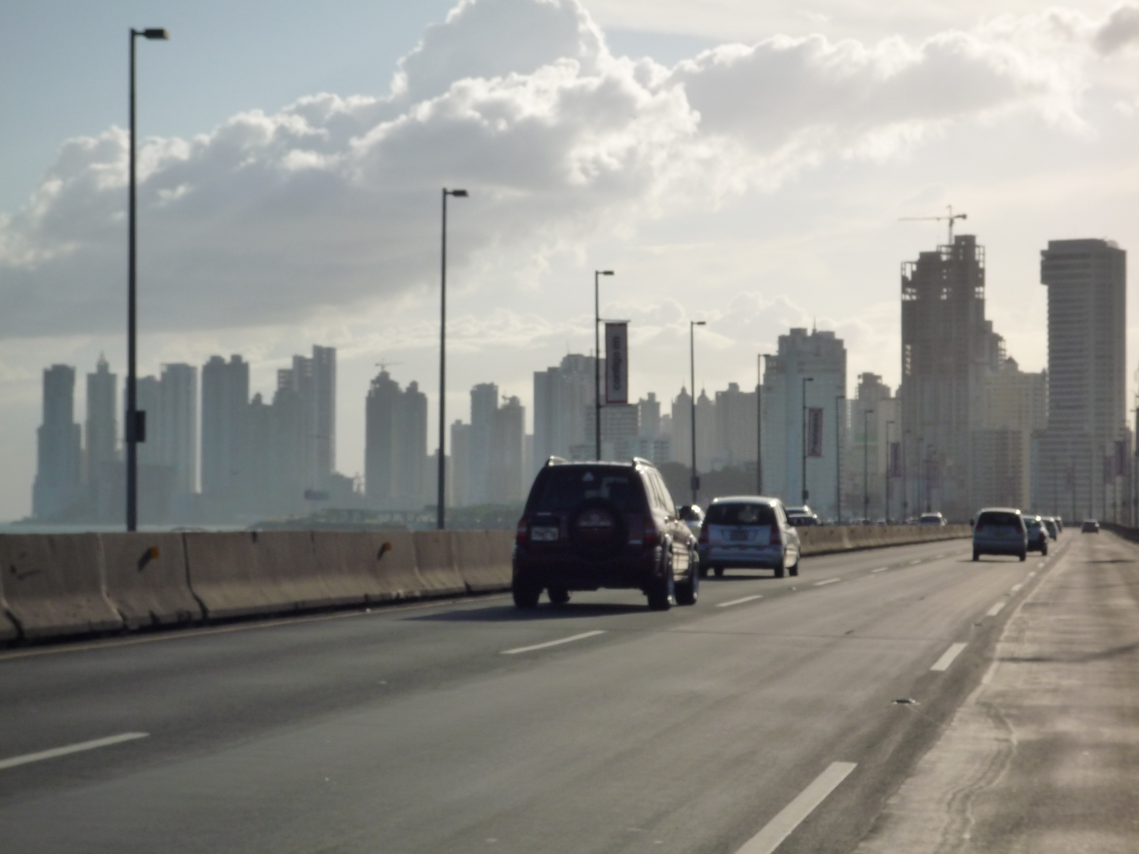 Corredor Dur, Panama City, Panama.